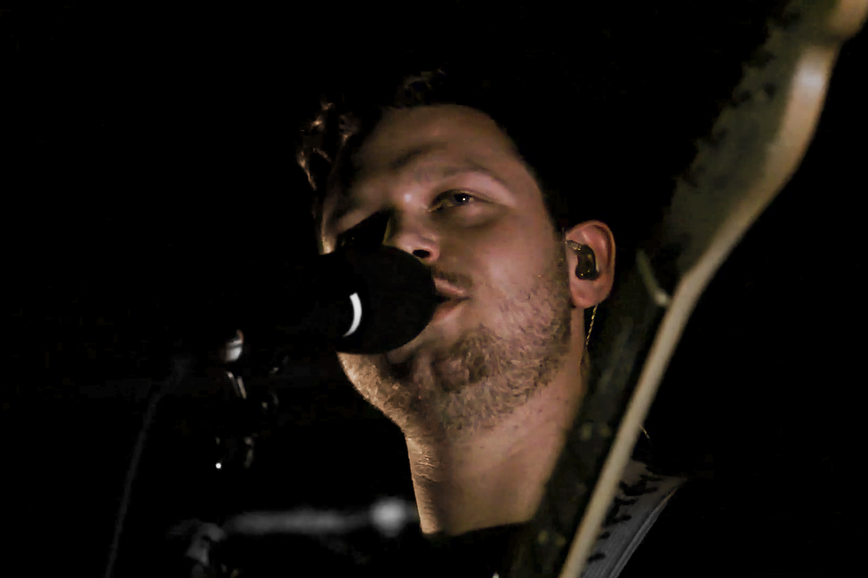 Alt-J playing at The Empty Bottle, Chicago, Illinois.